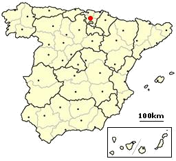 Location of Vitoria in Spain.